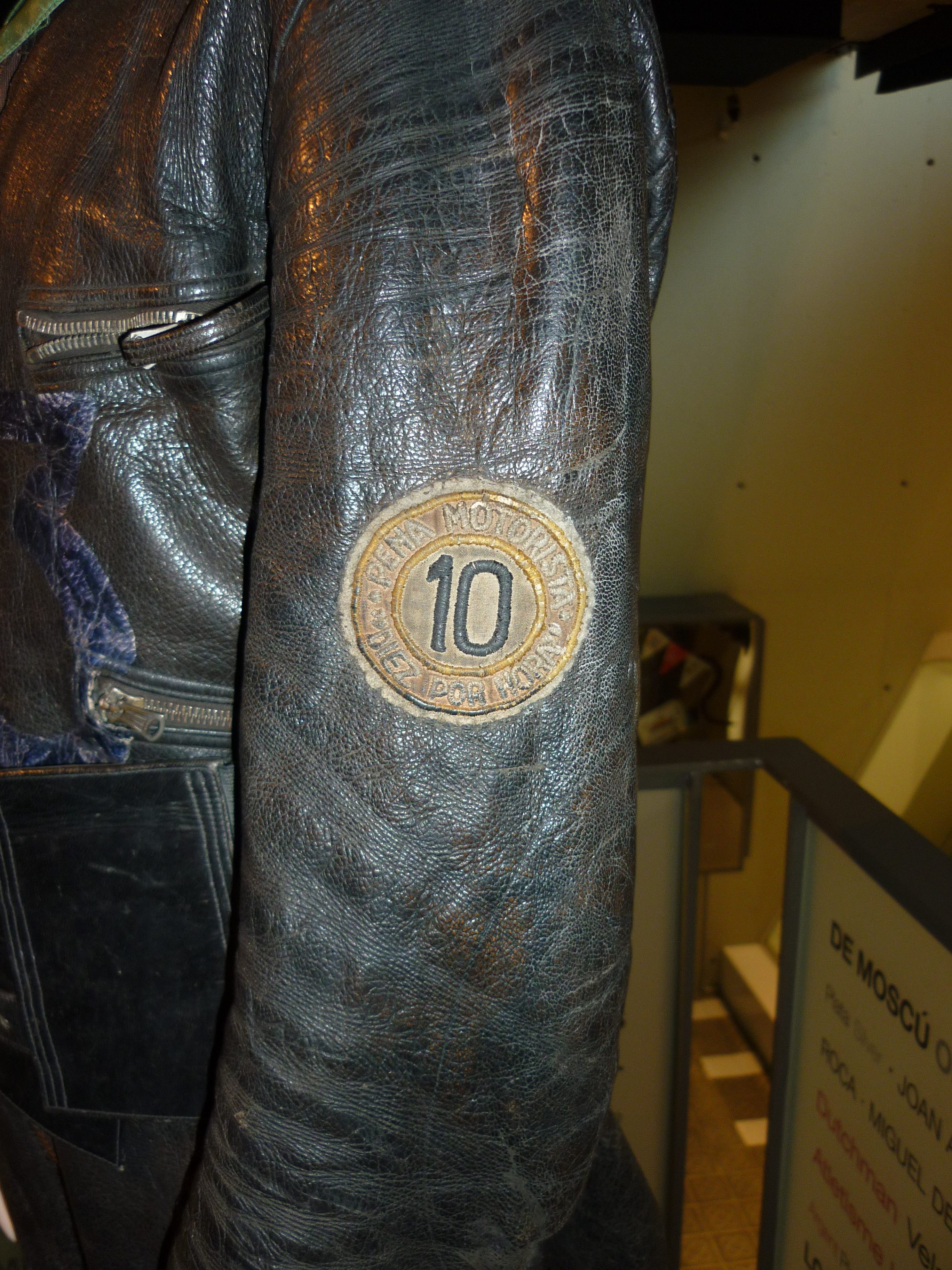 A Tag of the Penya Motorista 10xHora in the hose of the jacket that wore Alfredo Flores by 1950